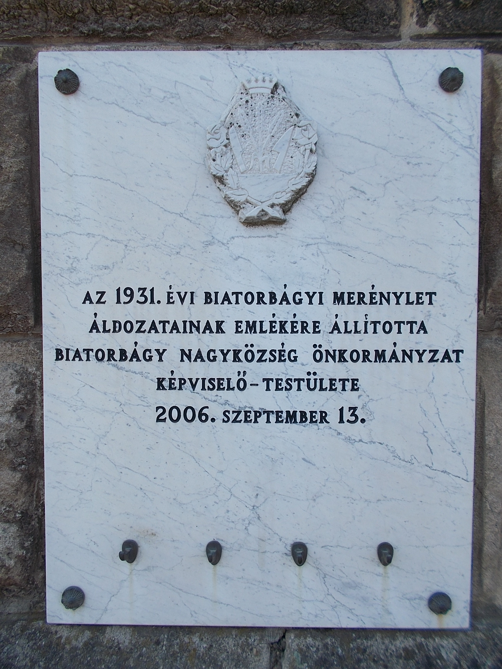 Fő Street, Torbágy, Biatorbágy, Pest County, Hungary.